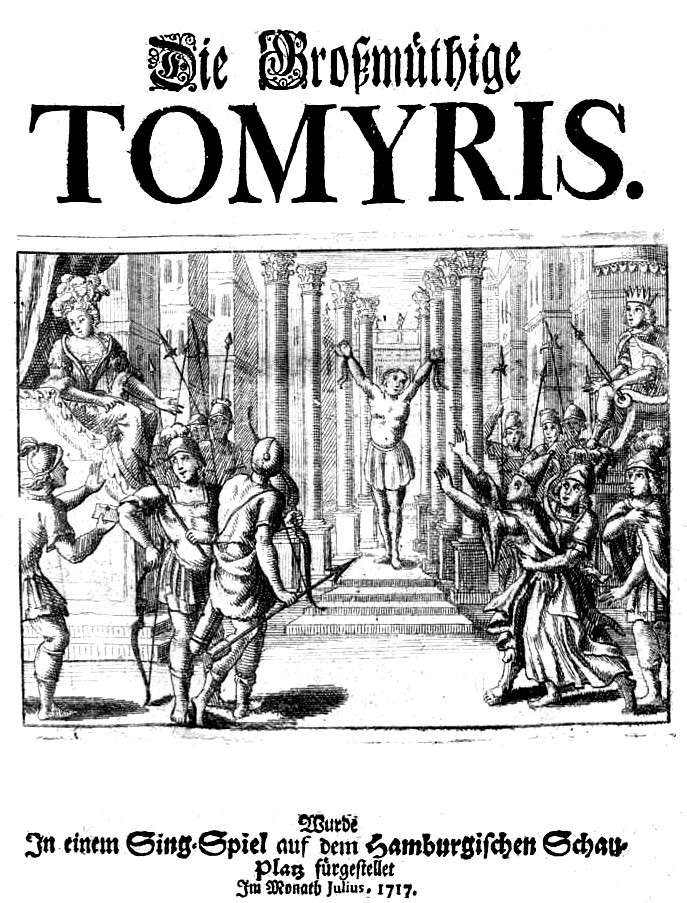 Reinhard Keiser - Die großmütige Tomyris - titlepage of the libretto from 1717